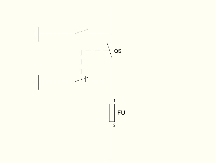 How to turn power off on distribution substation - before workers may start to do thier work, earthing knifes must be launched into the ground. But lot of accidents happened after completing work, when foreman turned power on but not all of workers have left distribution substation; also you can get lot of stories from different electrical companies about suicide done by foremans due to mistaken turning power on while people have been working inside. So, working on distribution substation is very danger and nervous if you campare it with receptacle or circuit breaker wiring. Picture describes common way of working, cause Europe uses 3 hot wires, but America uses 2 hot wires, so here are commonly shown way of disenergizing.